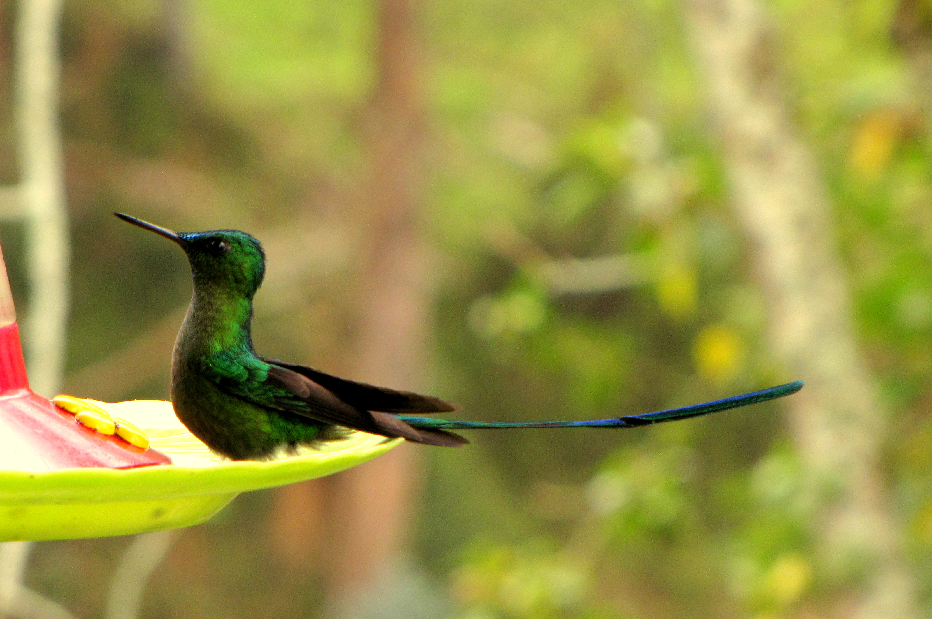 Aglaiocercus kingi (Silfo coliverde)